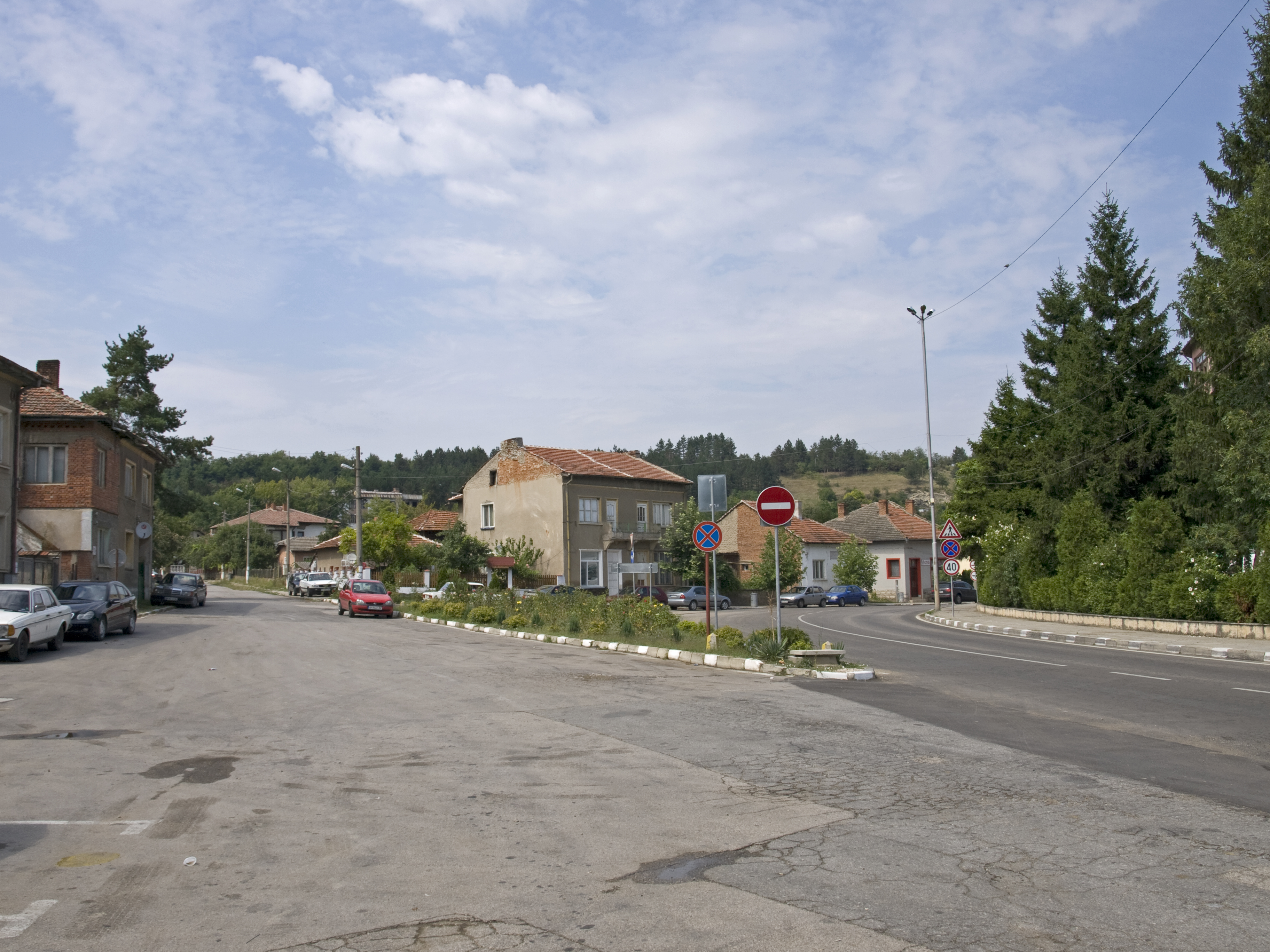 I-1 road (E79) in Dimovo, view to the north